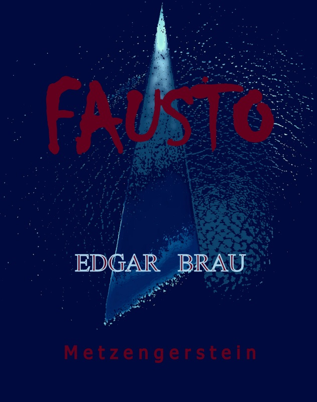 Cover E-book Edition